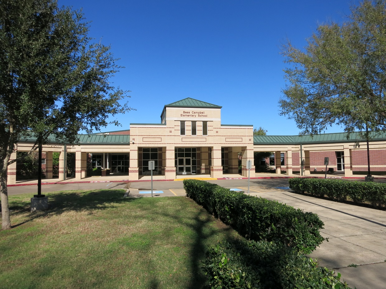 Photo shows the front of the Bess Campbell Elementary School at 1000 Shadow Bend Drive, Sugar Land, Texas. It is part of the Lamar CISD.